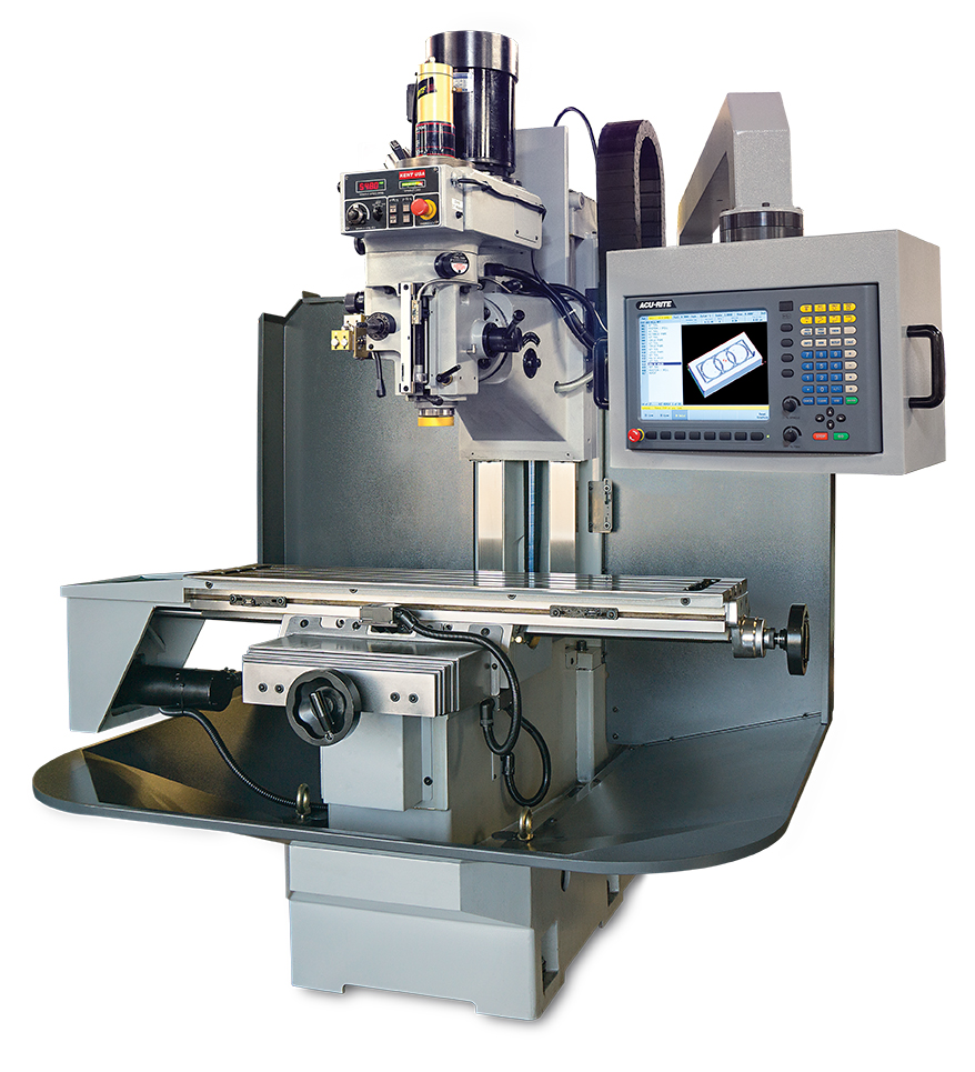 CNC Bed Mill with ACU-Rite or FANUC Control